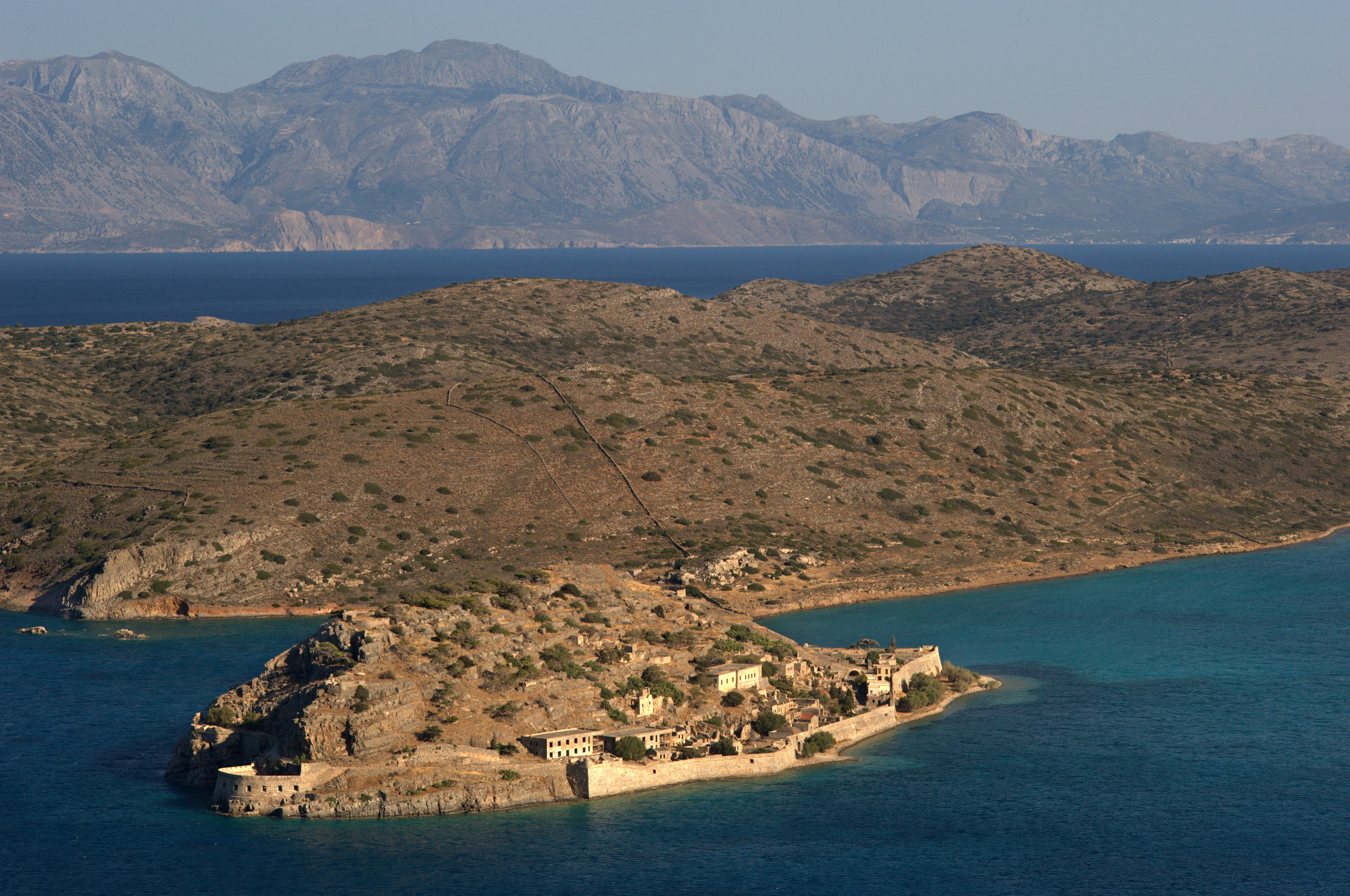 Island Spinalonga (Kalidon) – top view panorama, Crete, Greece.